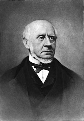 Charles Francis Adams; president of the Athenaeum.